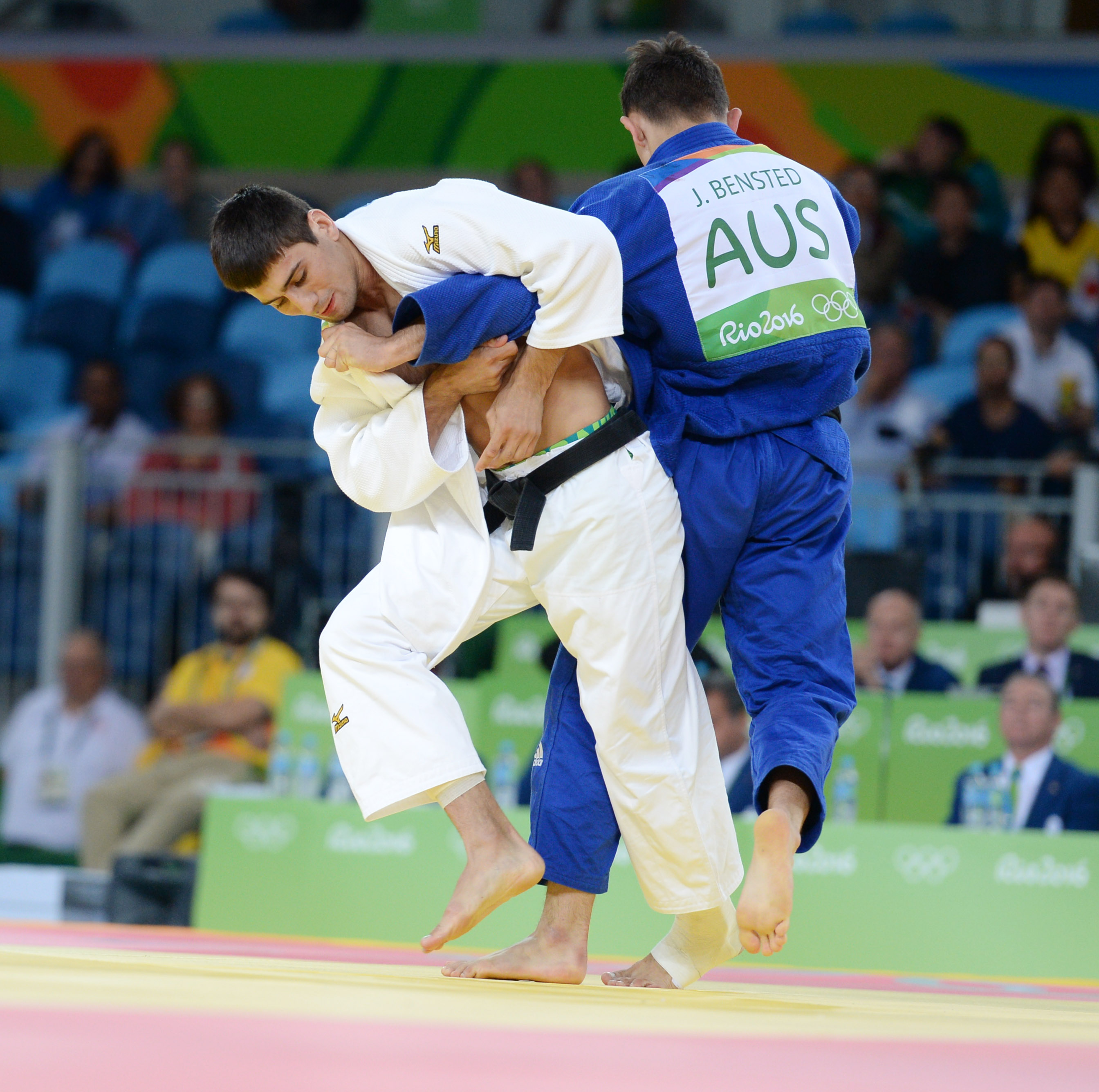 Judo at the 2016 Summer Olympics, Orujov vs Benstad